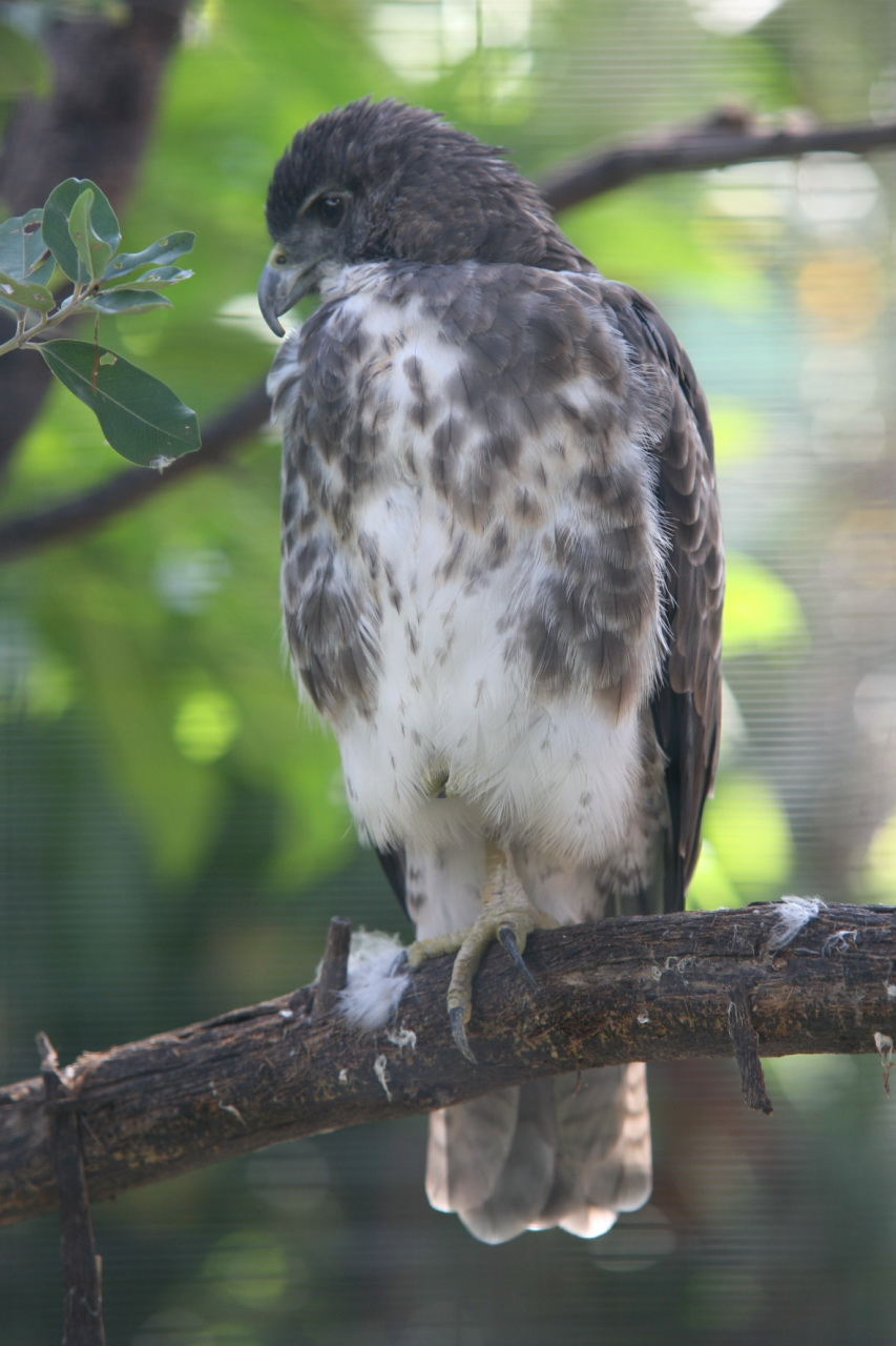 Hawaiian Hawk or 'Io (Buteo solitarius) at the honolulu zoo.